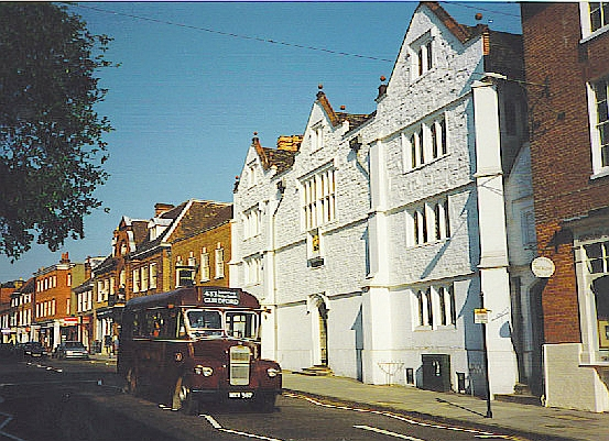 The Old Royal Grammar School, Guildford. Evening sunshine in the upper High Street. The vintage summer ramblers' Sunday bus is returning to Guildford Station.